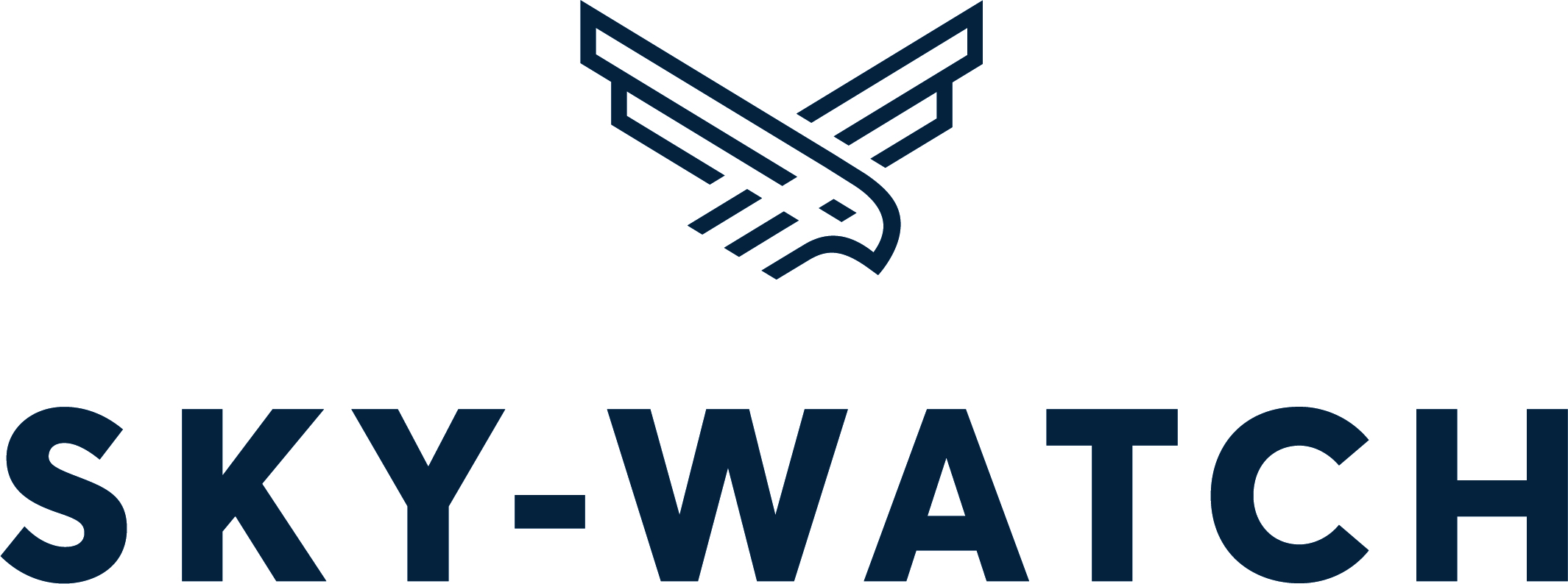 Sky-Watch Logo in Blue format